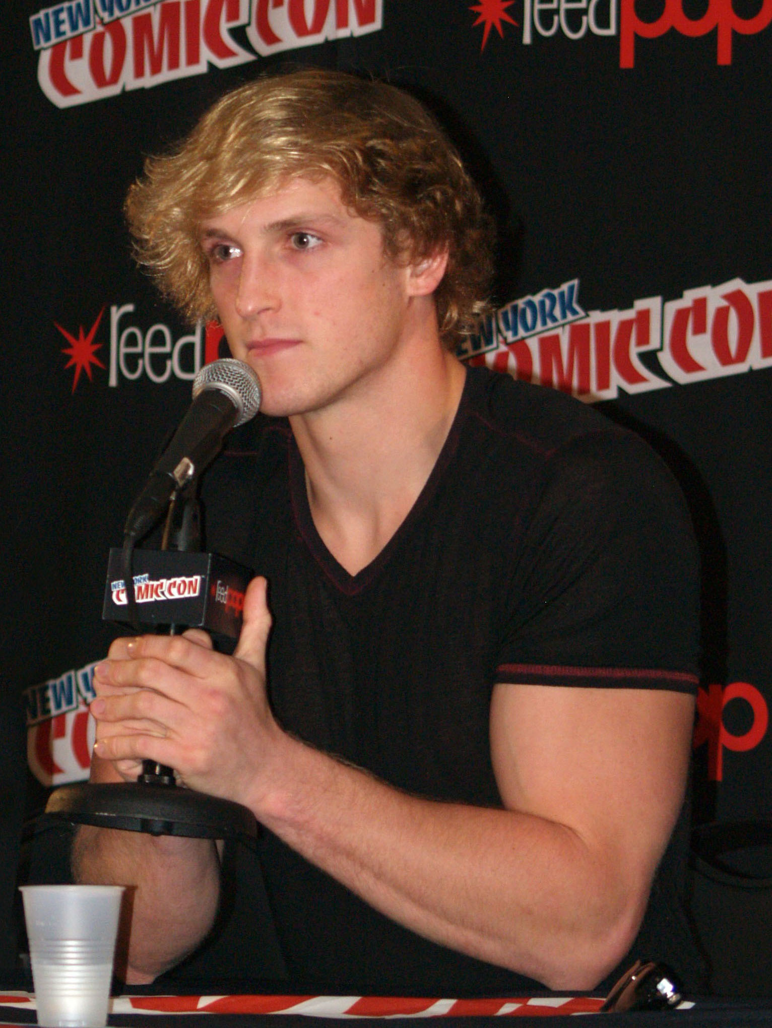 Actor Logan Paul at a panel discussion devoted to his 2016 film The Thinning at the Jacob K. Javits Convention Center in Manhattan, on Saturday October 8, 2016, Day 3 of the 2016 New York Comic Con.